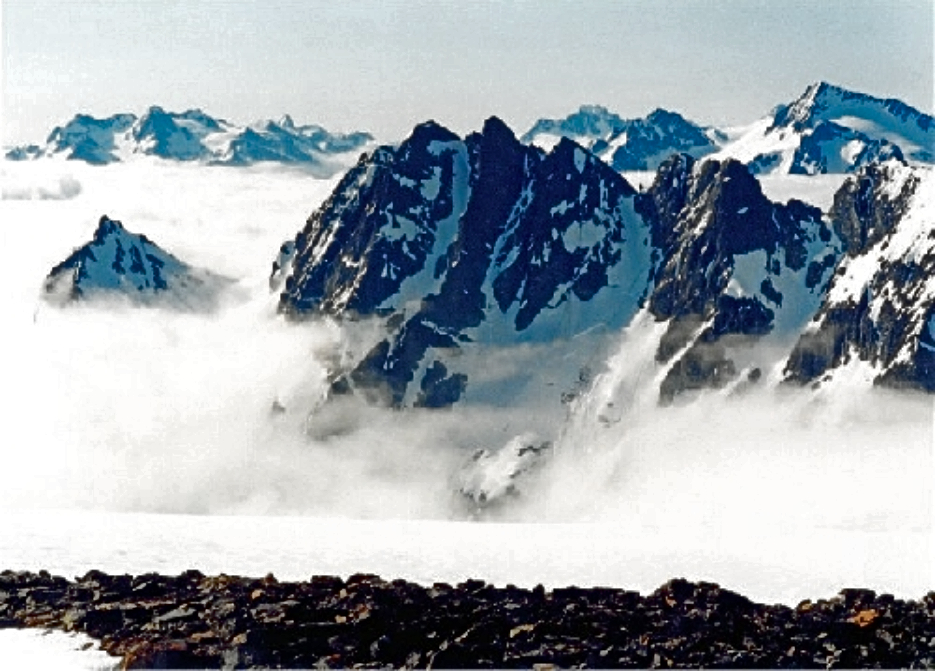 Mantis Peak / Distal Phalanx in the center of the frame. This view from Peak 7505, "Neve Peak"